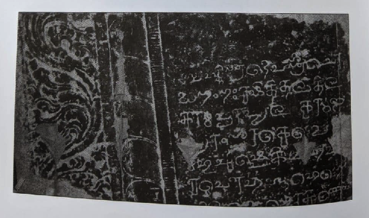 Sanskrit inscription of Codaganga from Trincomalee